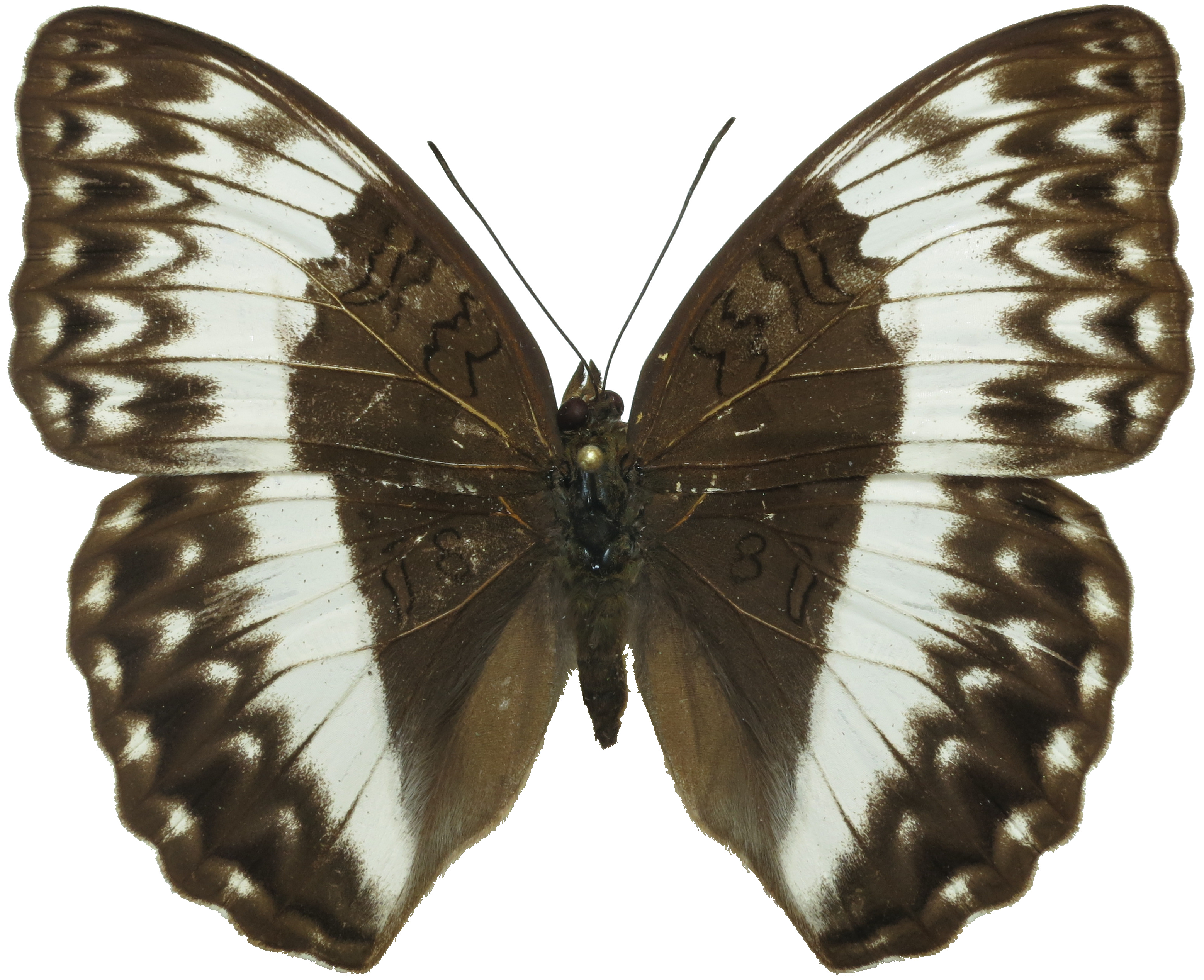 Cymothoe jodutta ciceronis female dorsal side - Mbalmayo, Cameroon